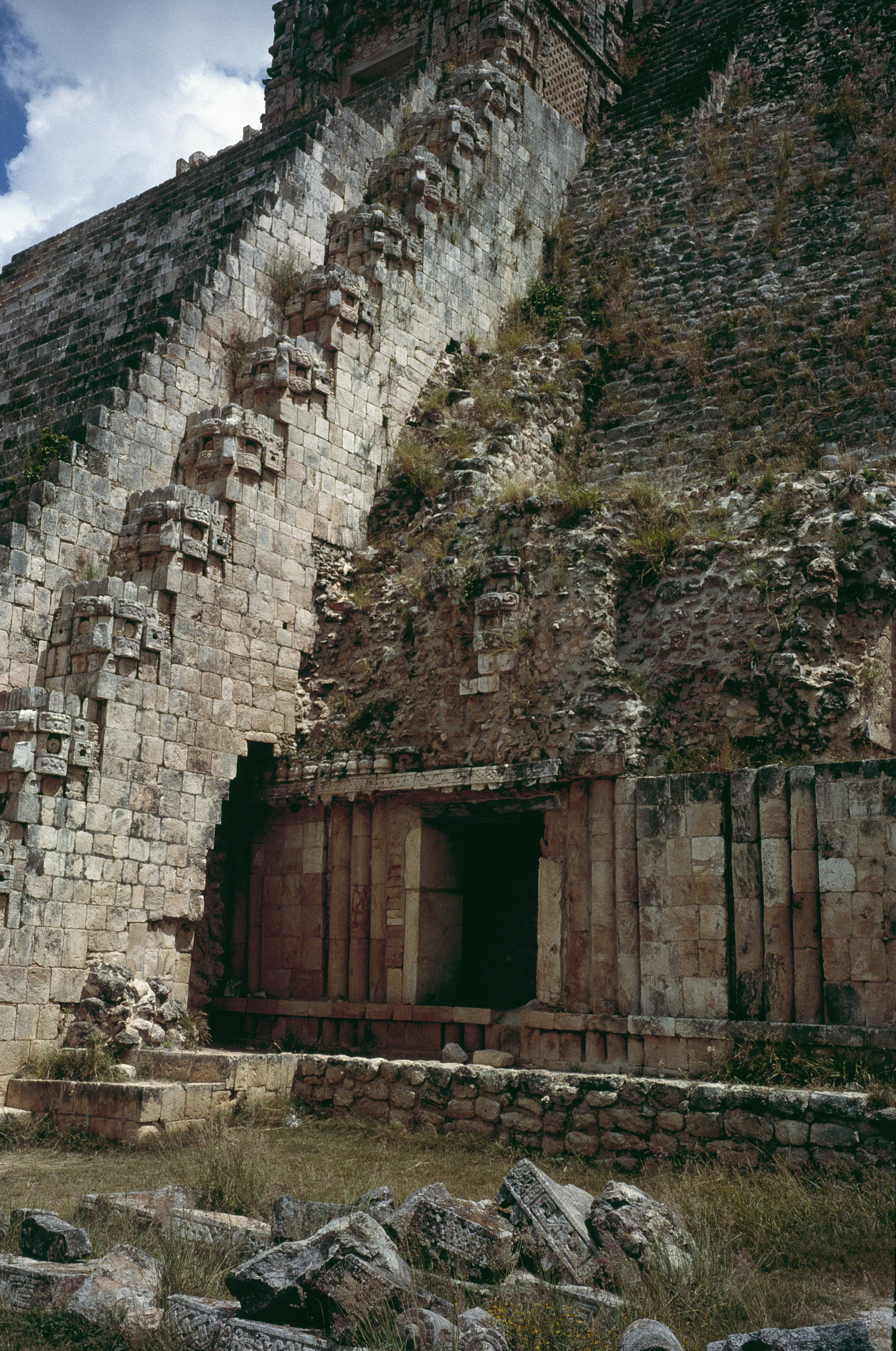 Uxmal, Yucatan, Mexico: Adivino, Temple 1, facade